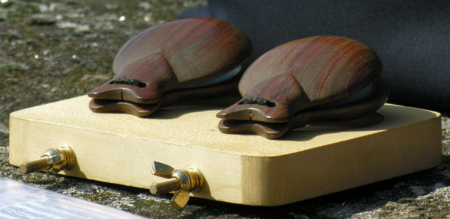 Percussion from Galiza, Spain